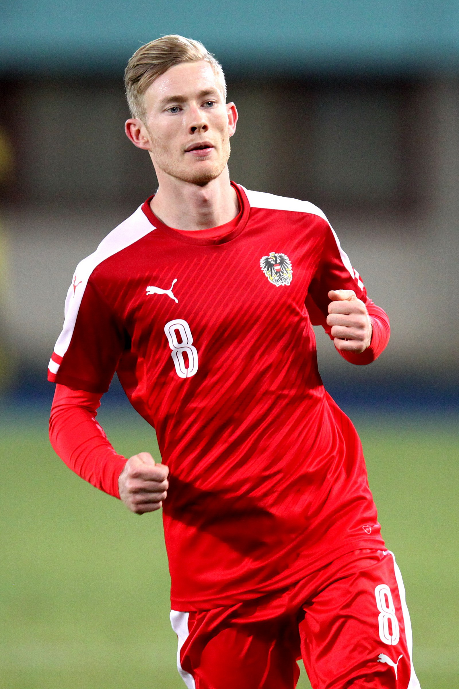 Friendly match – Austria (red shirts) vs. Switzerland (white shirts) 1-2 (1-2) – 2015-11-17 in Vienna, Ernst-Happel-Stadion – The photo shows Florian Kainz.